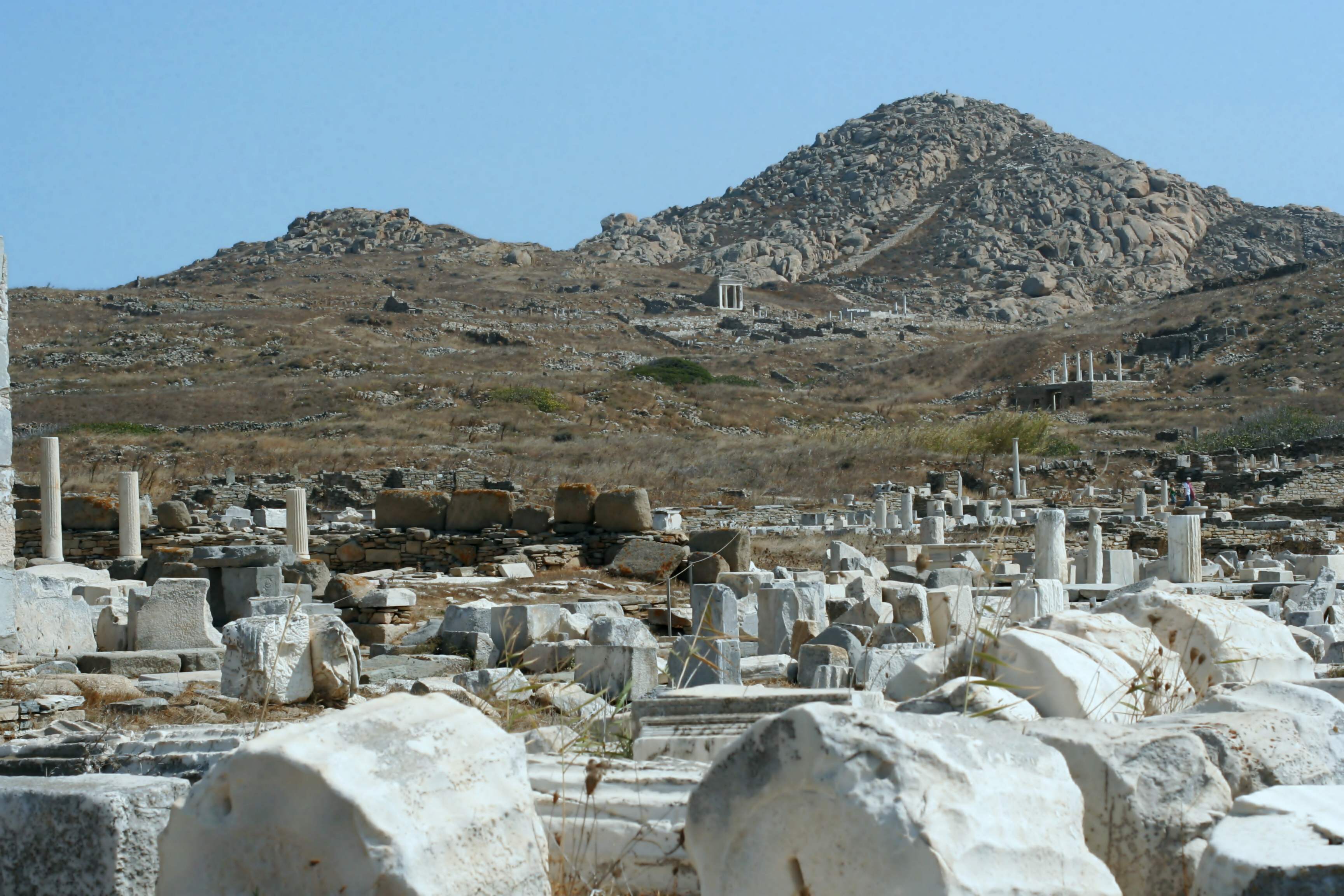 View toward the sacred peak Kynthos from Stoa of the Naxians through the Oikos of the Naxians. Delos.